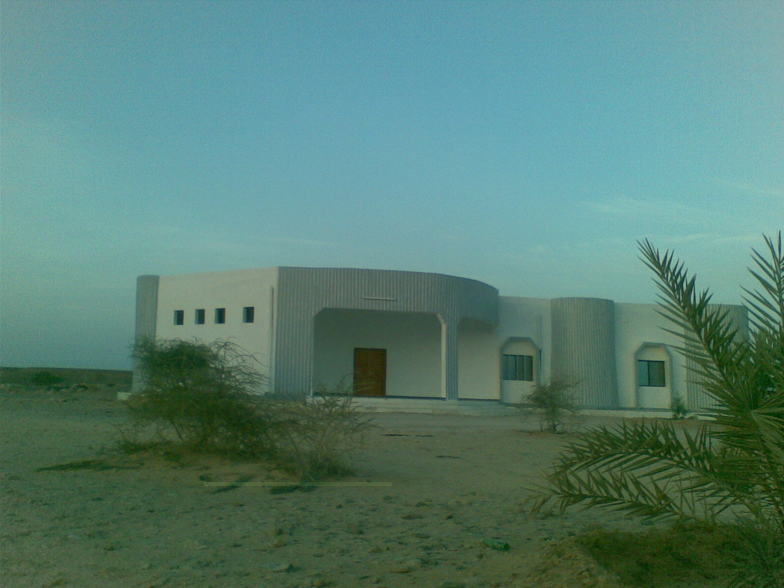 Alternate entrance to East Africa University in suburban Bosaso, Somalia.